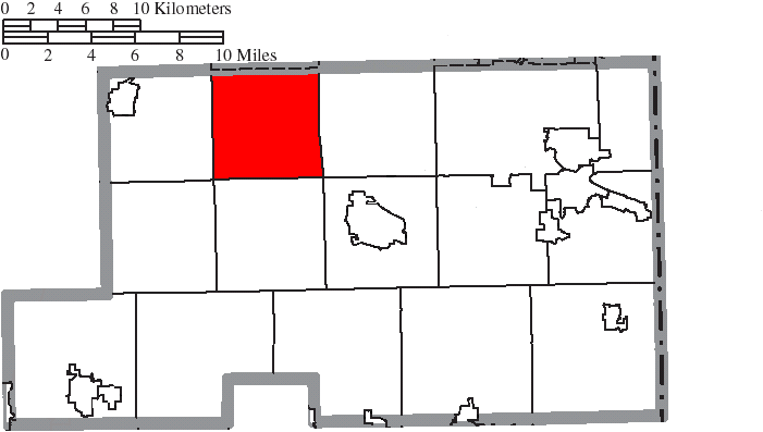 Map of the municipal and township boundaries of Mahoning County, Ohio, United States, as of the 2000 census, with the location of Jackson Township highlighted. Township borders are shown only in unincorporated areas in order to differentiate incorporated and unincorporated areas more clearly.